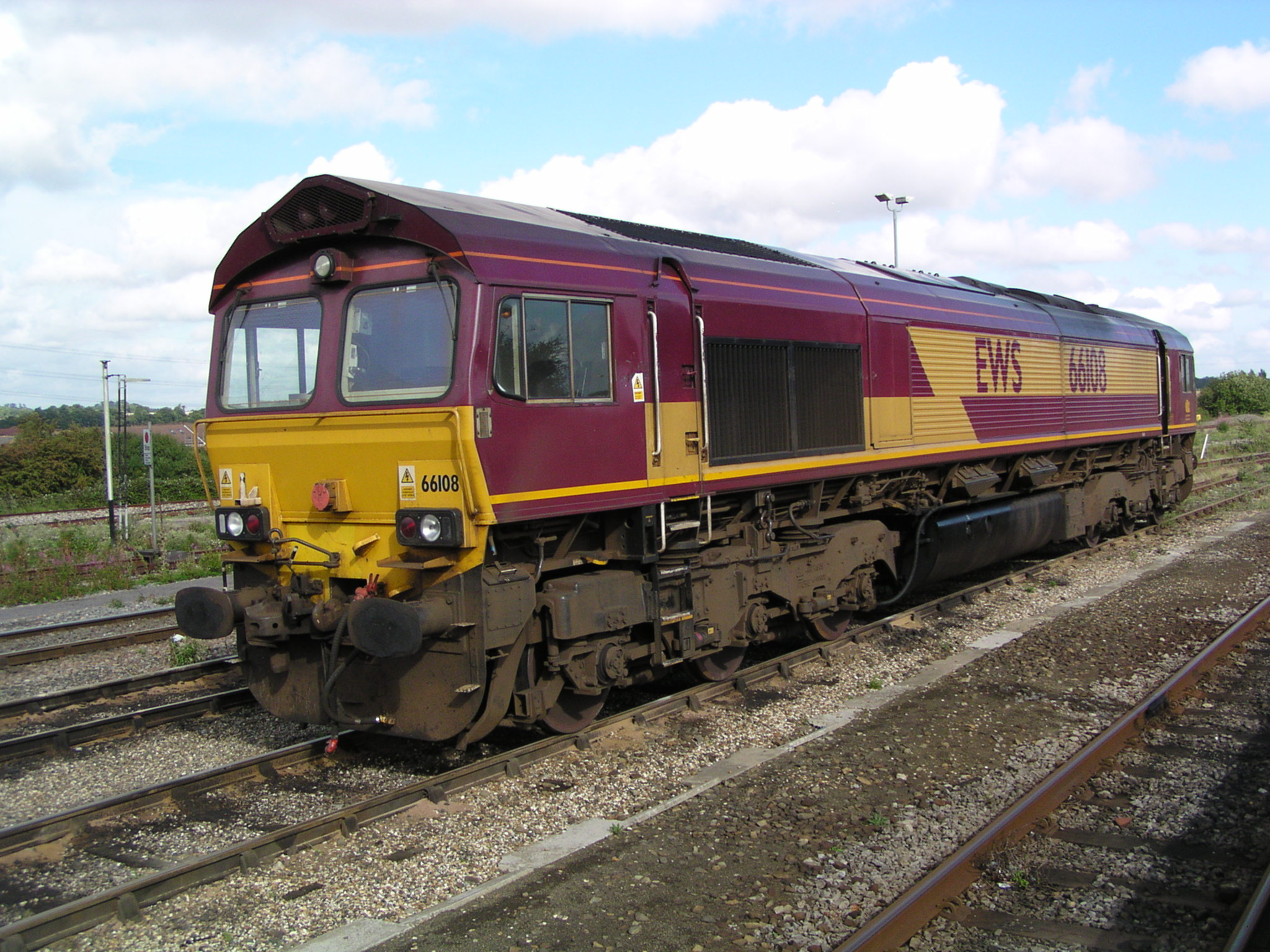 BR Class 66, no. 66108 at Didcot on 23rd August 2004